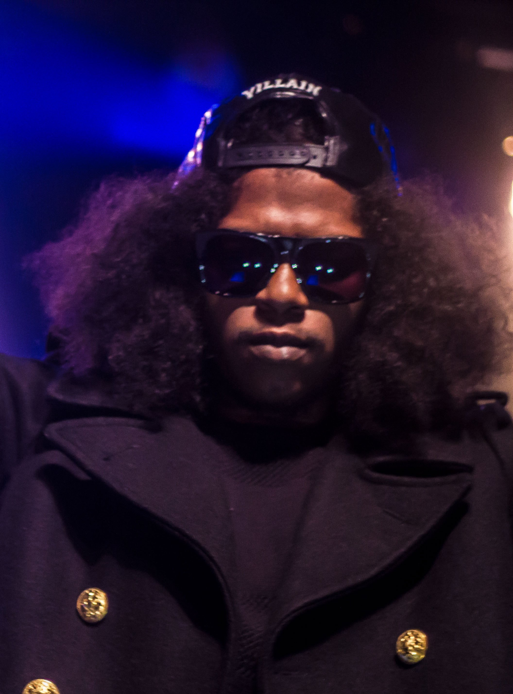 Ab-Soul performing at his These Days Tour in Toronto in 2014.